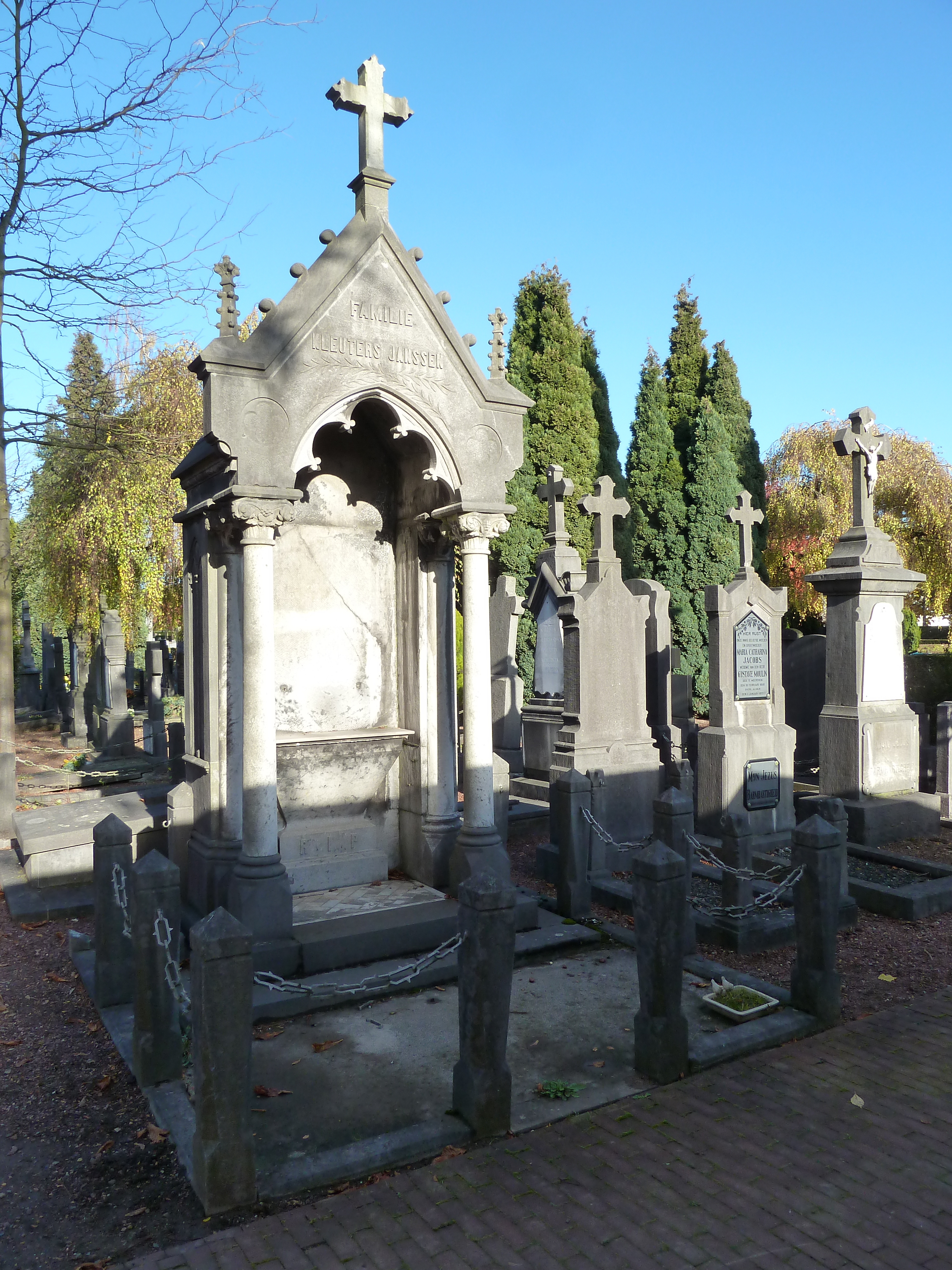 Familiegraf Kleuters-Janssen, Meerssen, Limburg, the Netherlands